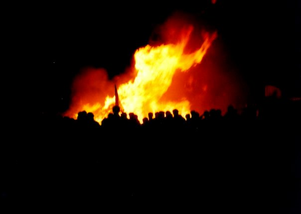 The annual event of "Jashn Sadeh" in Tehran.